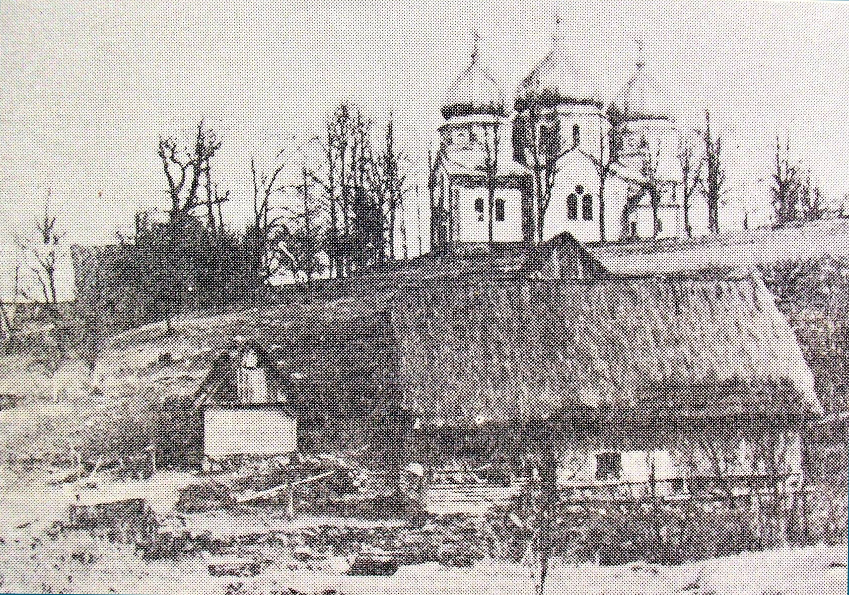 Greek Catholic Church of the Ascension in the village of Hoczew (photo from 1905)